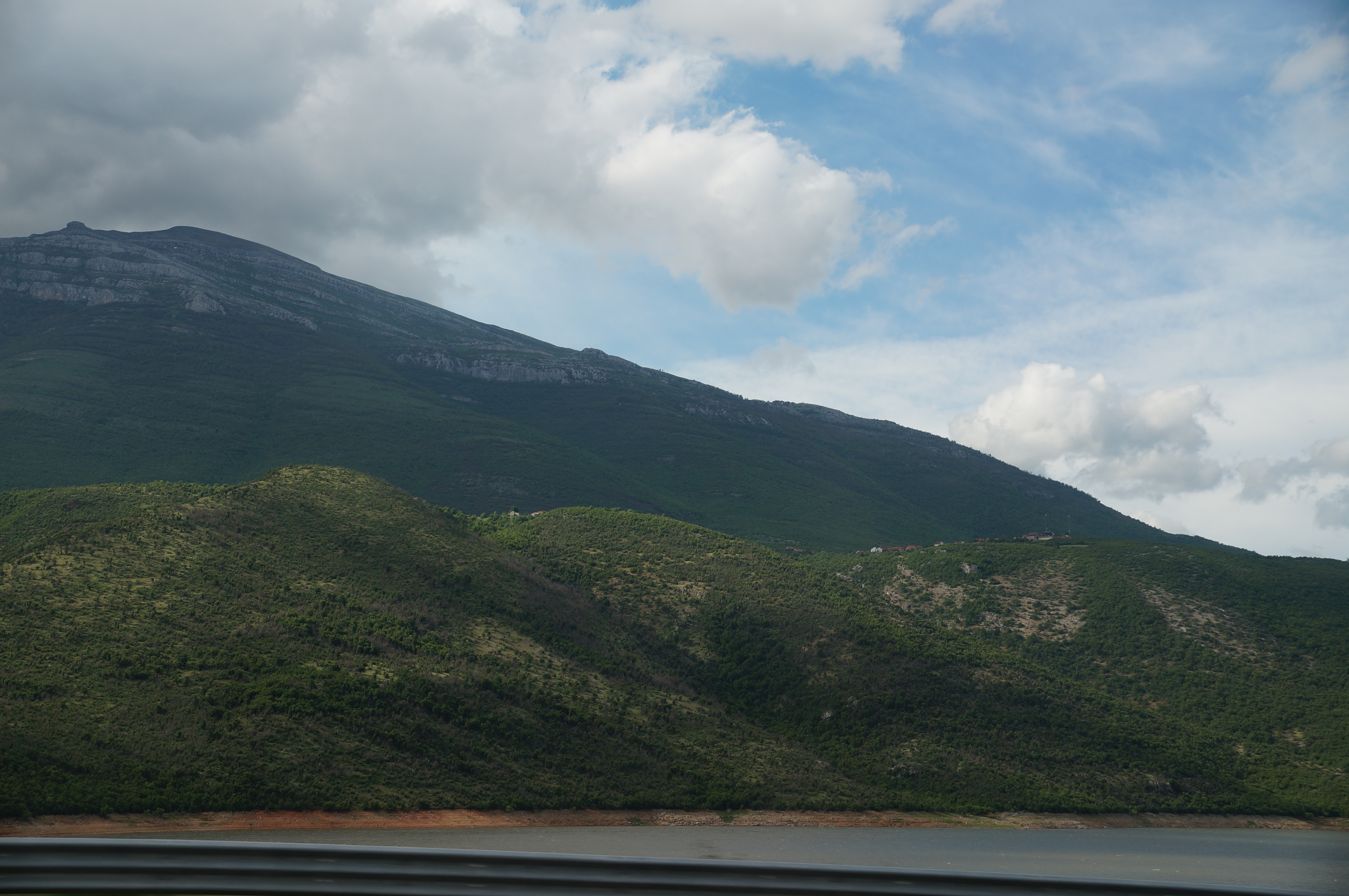 Gorozhup village seen from the south side of the lake at Morina